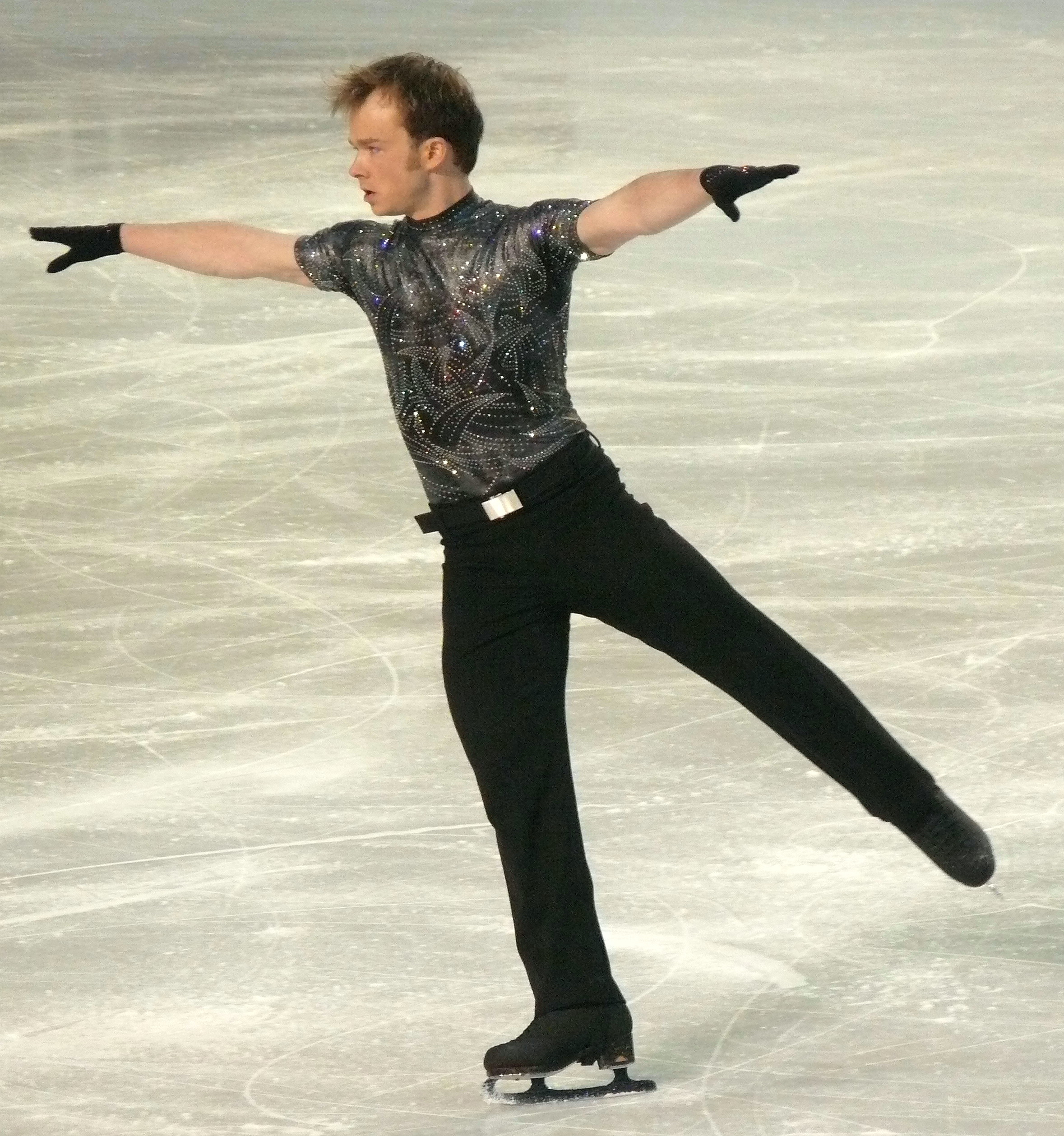 Stefan Lindemann during the warm up for the free program at the European Figure Skating Championships 2010 in Tallinn